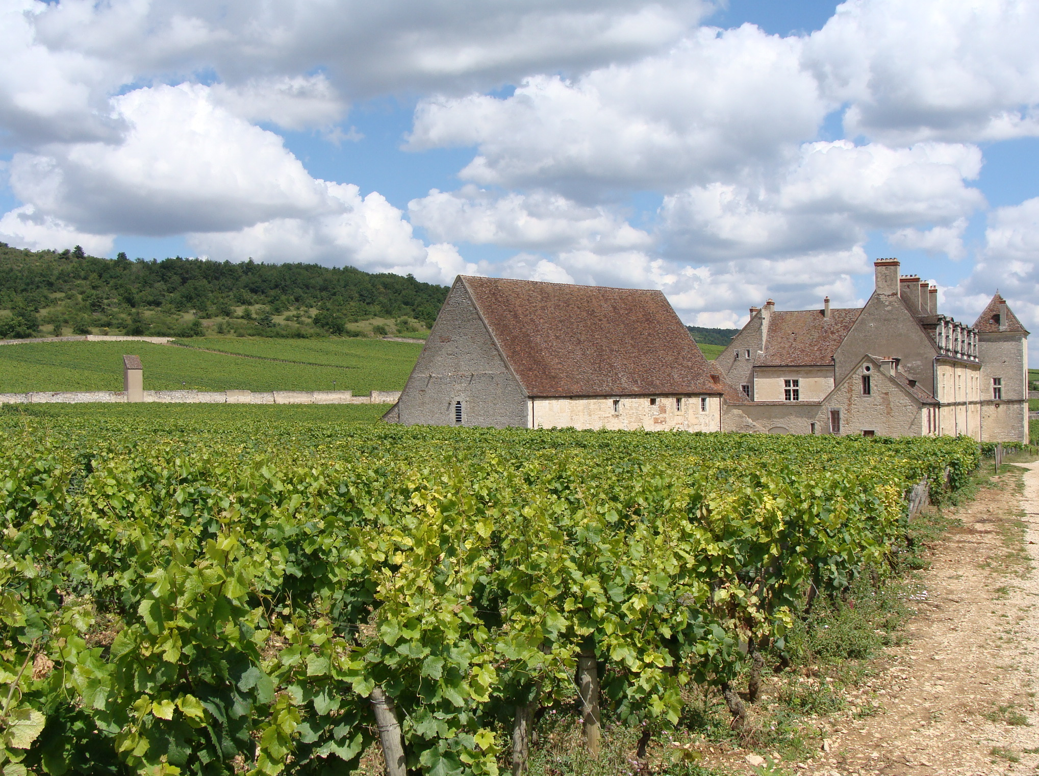 Le clos Vougeot, one of the most famous vineyards of Burgundy in Côte-d’Or (France).